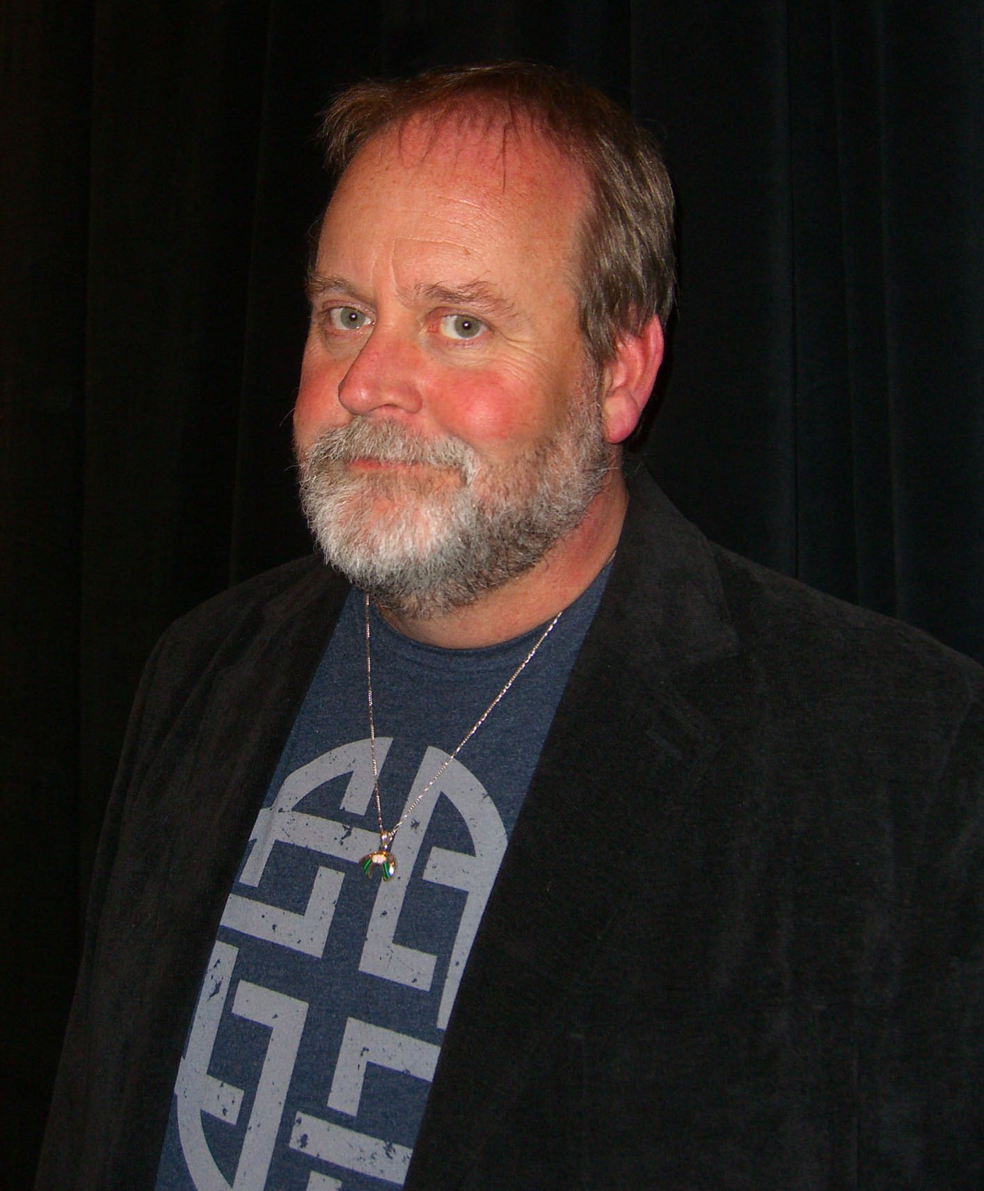 Comics creator Bob Schreck following the Legendary Comics panel on Day 2 of the 2012 New York Comic Con, Friday October 12, 2012 at the Jacob K. Javits Convention Center in Manhattan. This photo was created by Luigi Novi. It is not in the public domain, and use of this file outside of the licensing terms is a copyright violation.